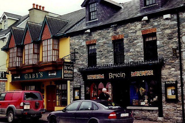 Killarney - High Street - Gaby's & Bricin